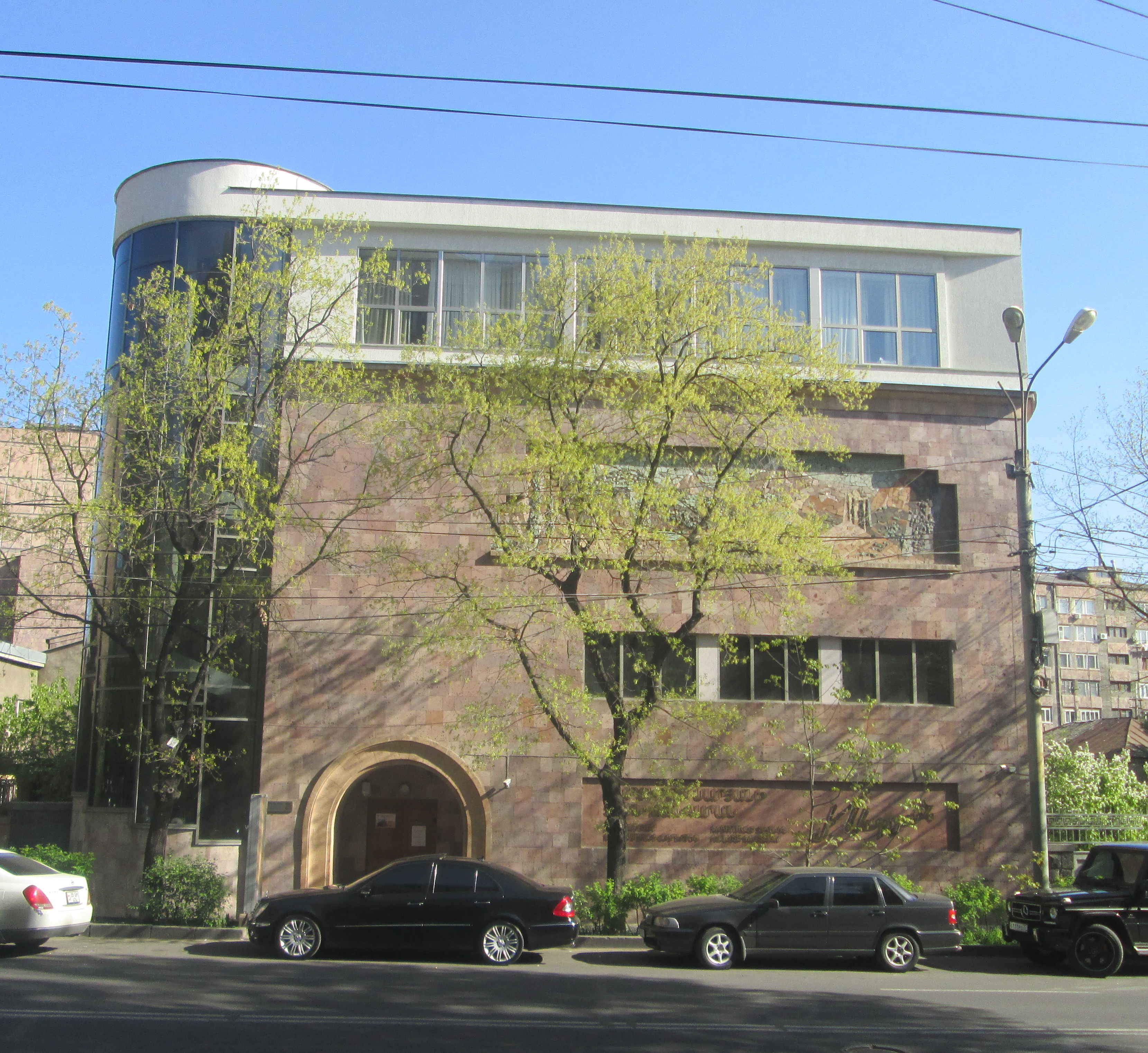 Main facade of the M.Sarian House-Museum